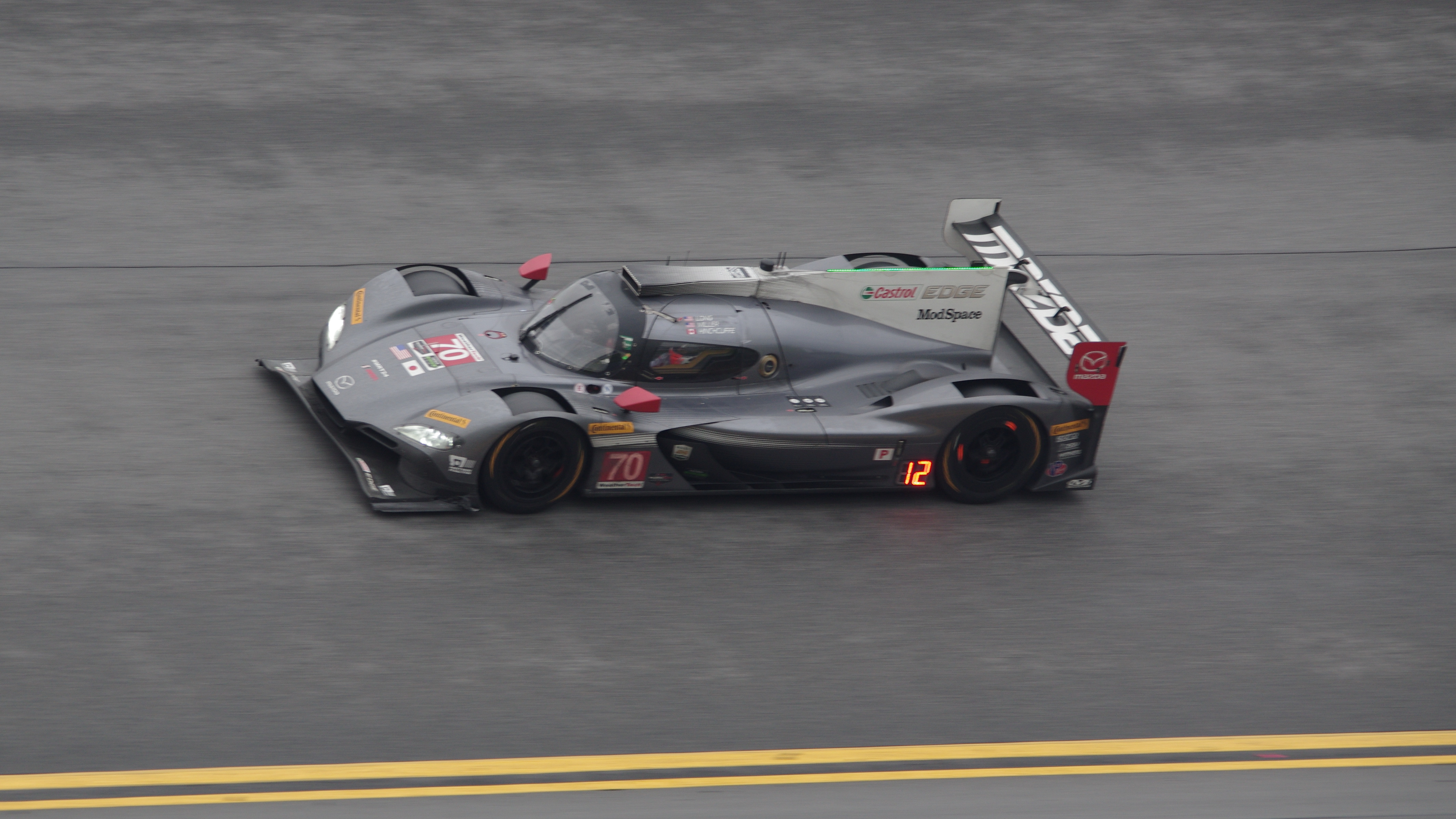 Daytona 24, 2017 - #70 Mazda RT24-P - Long, Miller, Hinchcliffe, Devlin